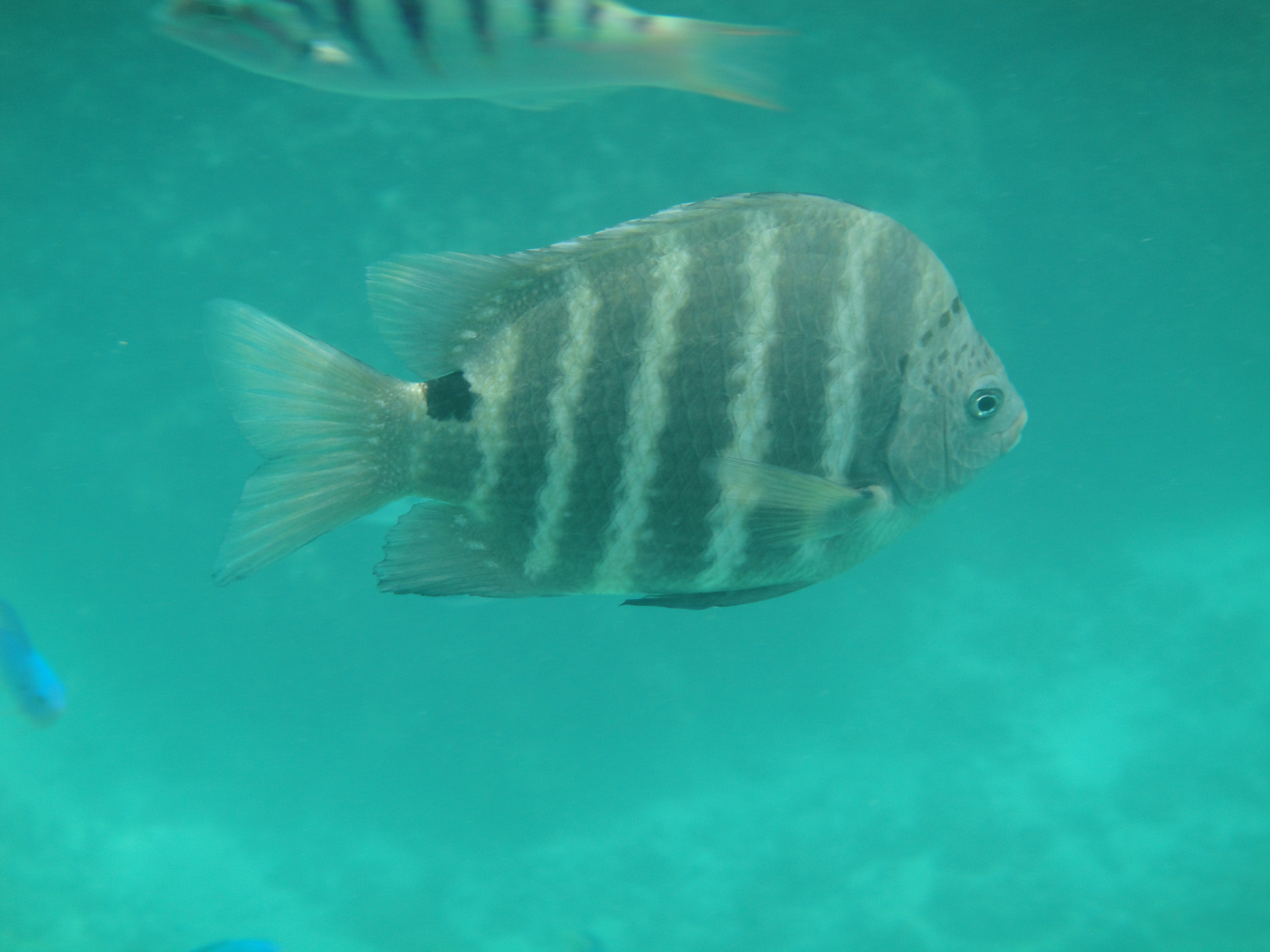 Abudefduf sordidus